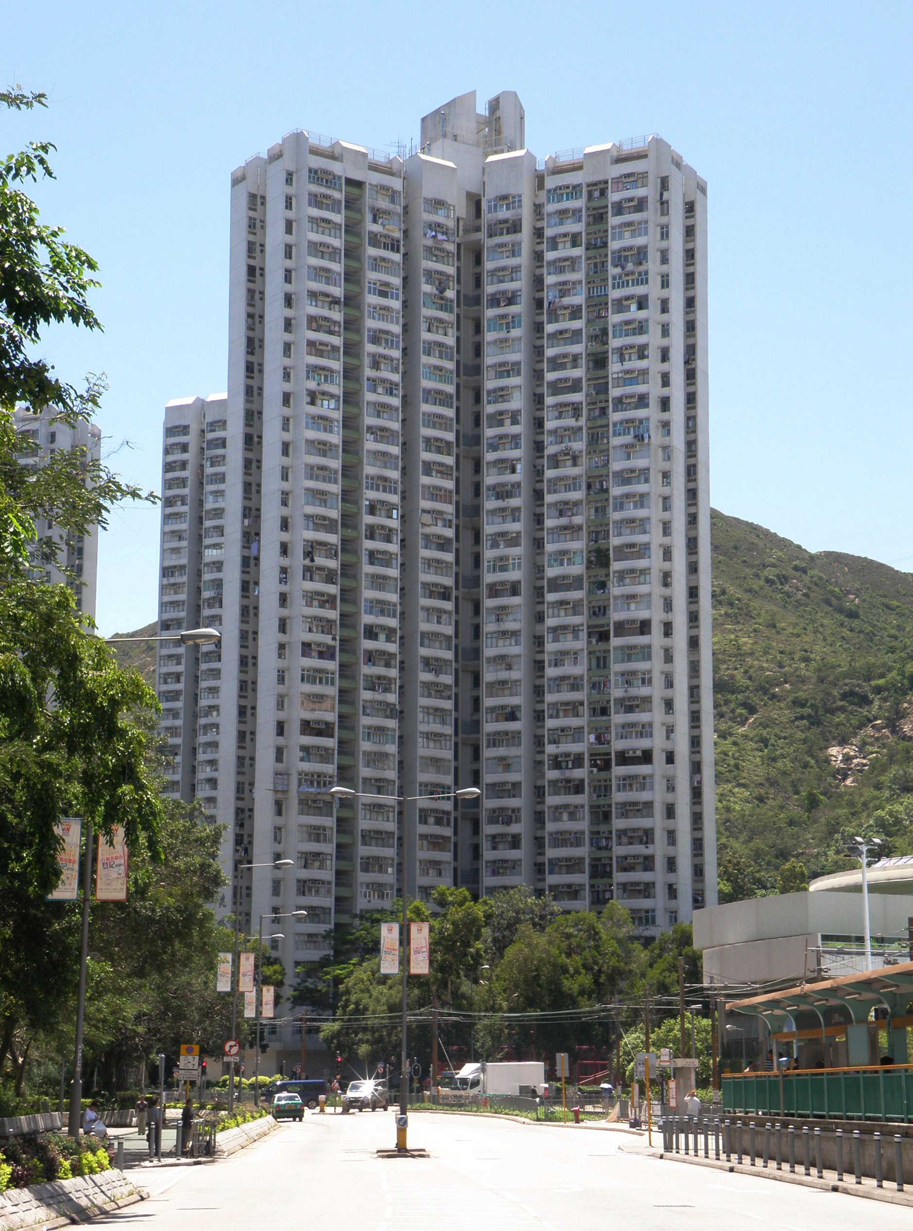 Siu Lung Court in Tuen Mun, Hong Kong.